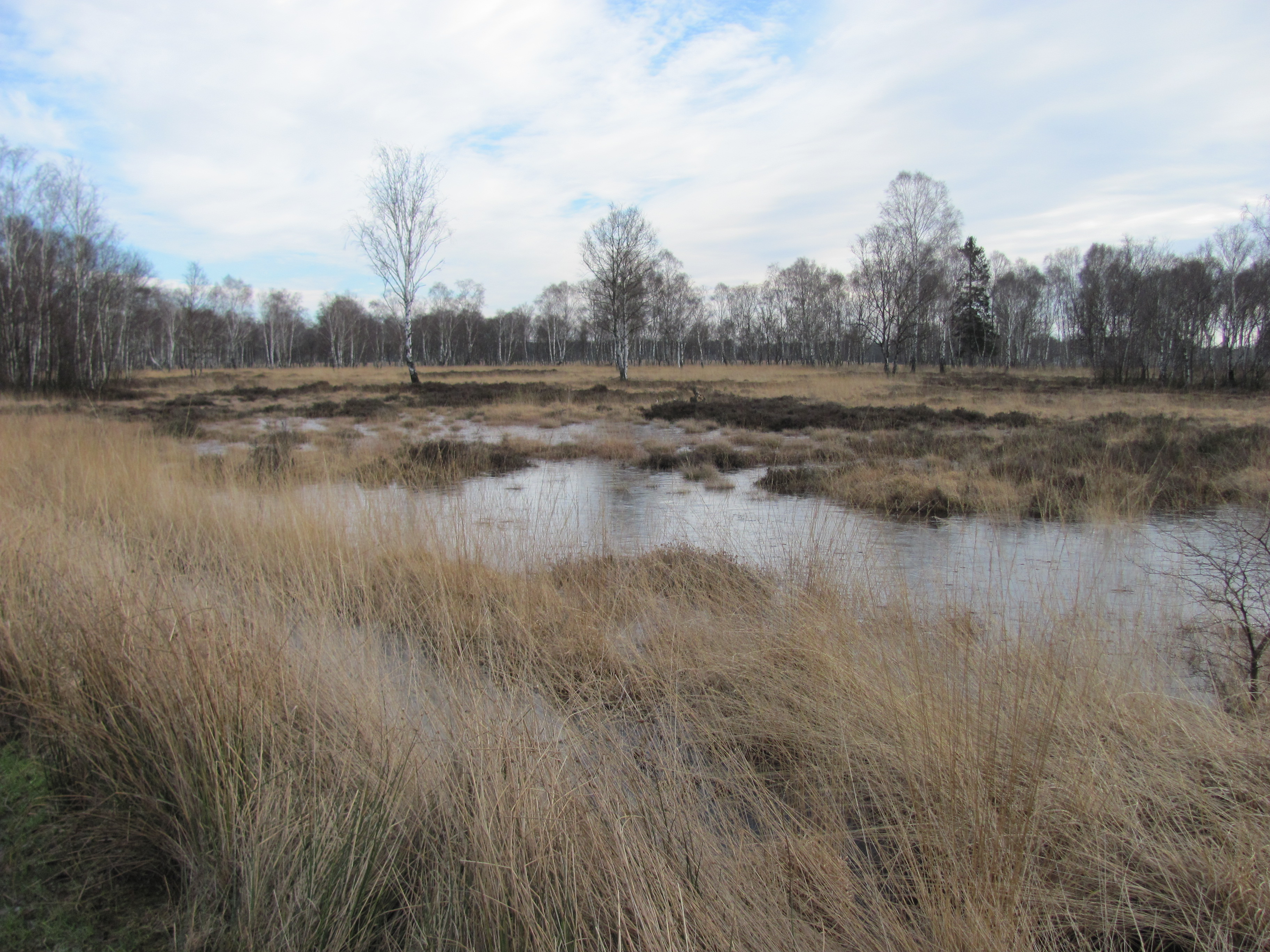 Nature reserve Duvenstedter Brook, Hamburg, February 2011